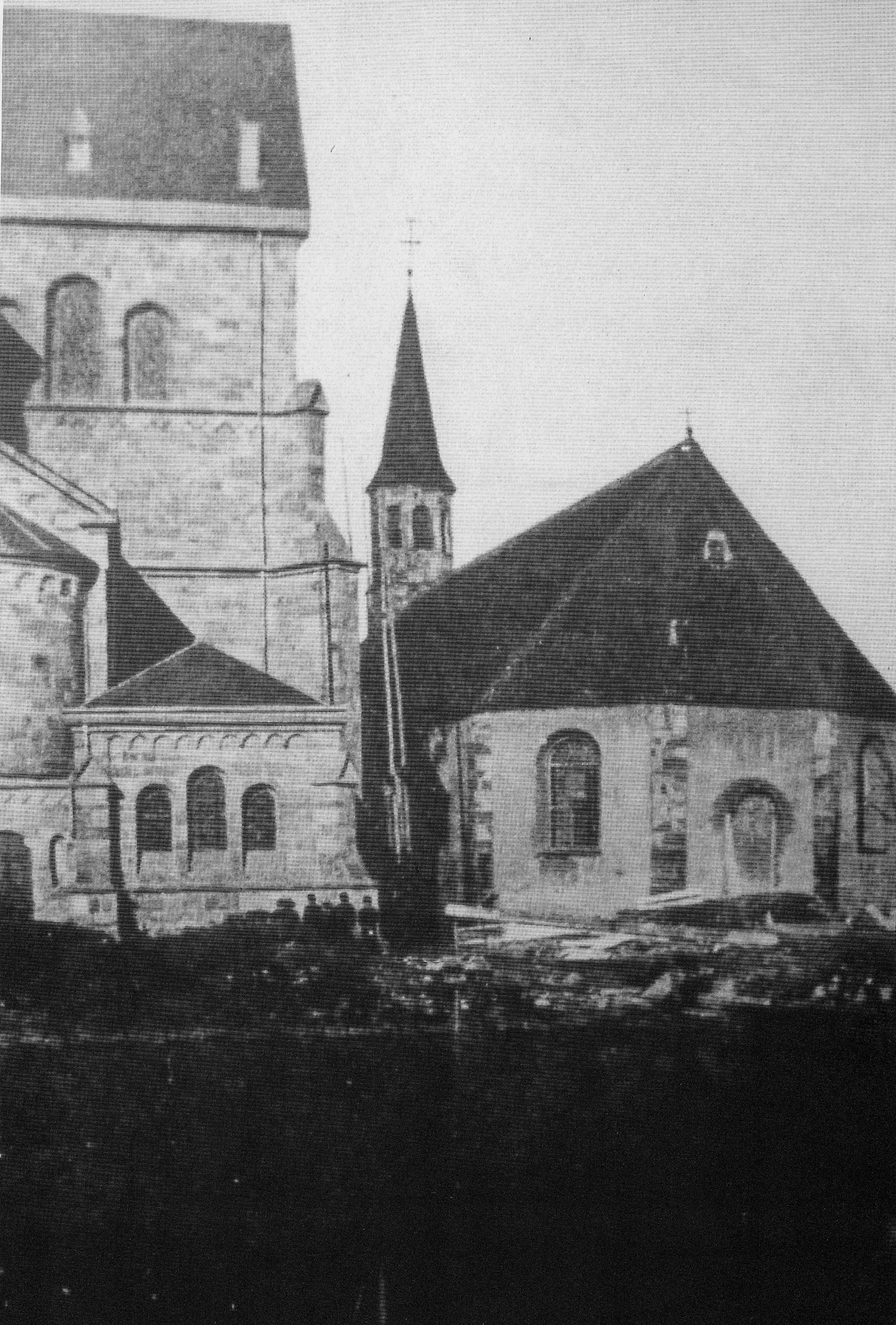 New and old catholic church of Mettingen, Germany, around 1893.